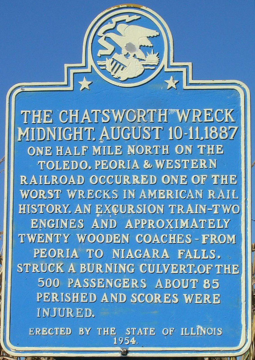 Historical marker erected by the State of Illinois in 1954 to commemorate the 1887 Great Chatsworth train wreck.